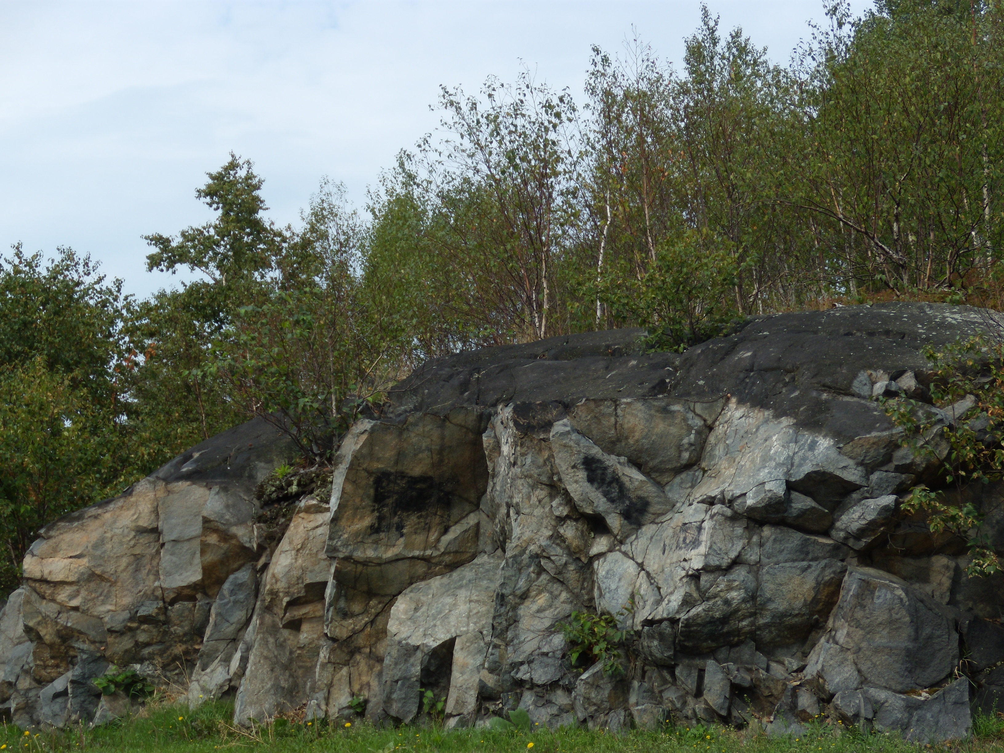 Blackened rocks in Sudbury, Ontario